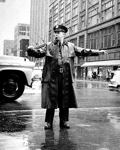 Policeman Clarence Pederson directing traffic at Seventh and Nicollet, Minneapolis.